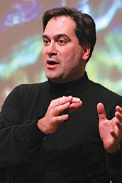 Professor Chad Mirkin